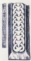 image